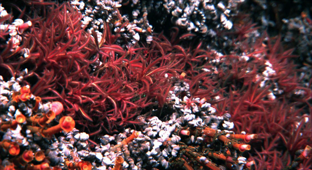 Close-up of Palm worms, tubeworms, and limpets at Main Endeavour Field.